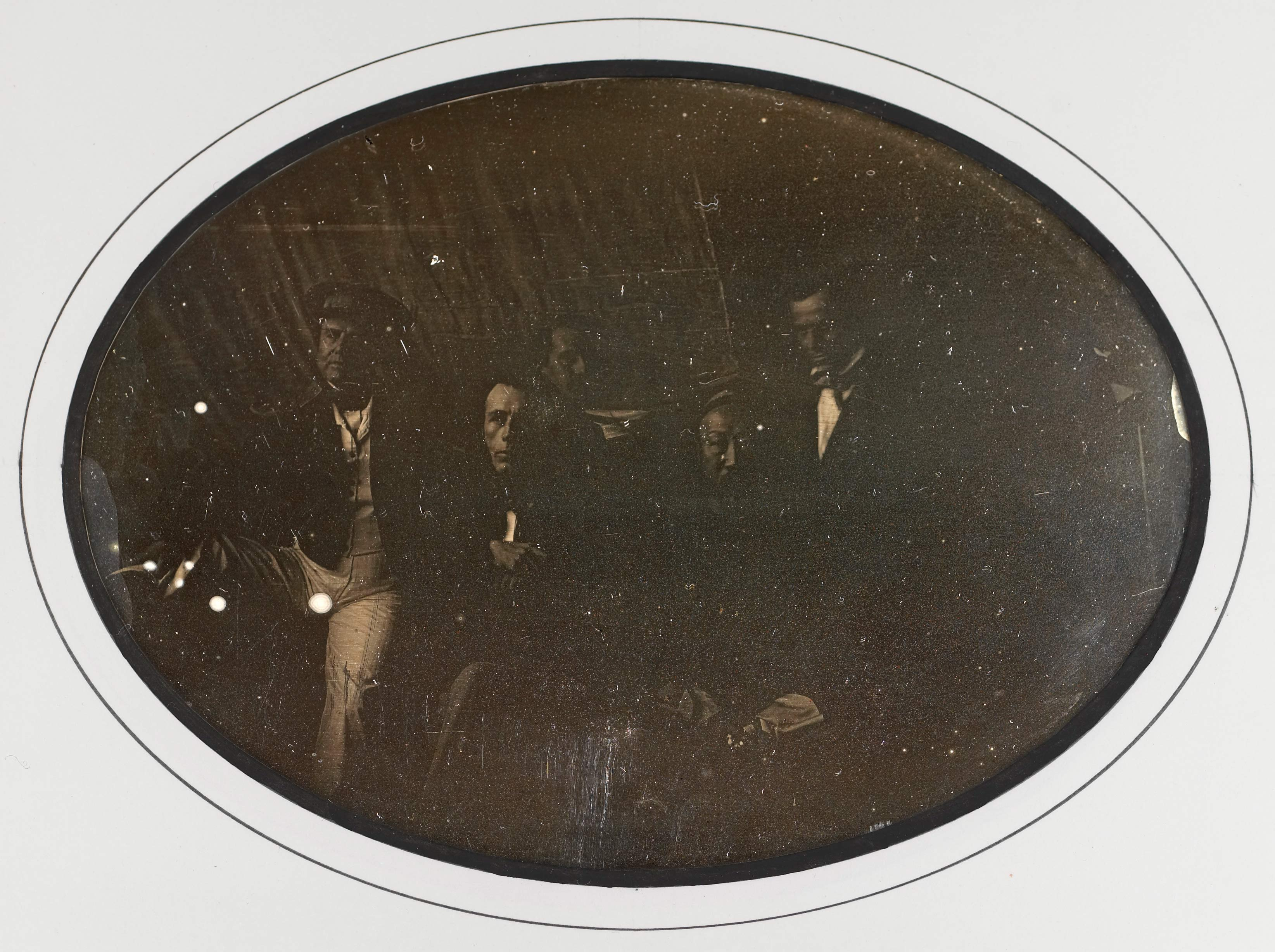 The French embassy posing with Manchu statesman Qiying, 1844.